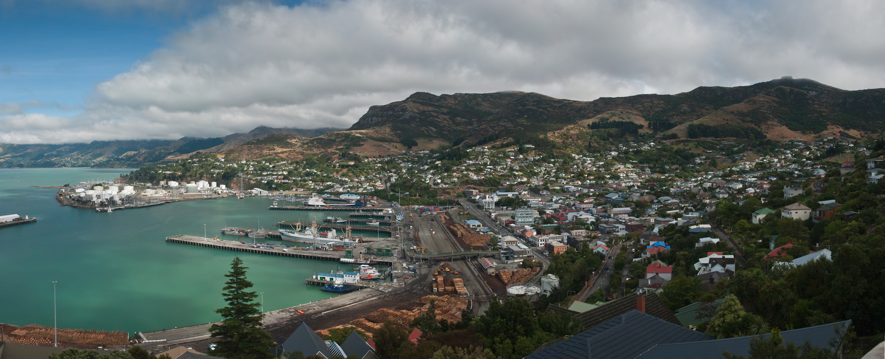 View to the west from the Timeball Station main tower, overlooking the inner harbour and township of Lyttelton, New Zealand, February 2010. Most of the multi-storey masonry-based buildings visible in the town centre have since been lost to the 2010 Canterbury Earthquake and subsequent aftershocks.